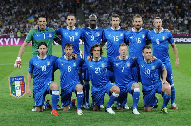 Italy national football team starting XI at Euro 2012 match against England